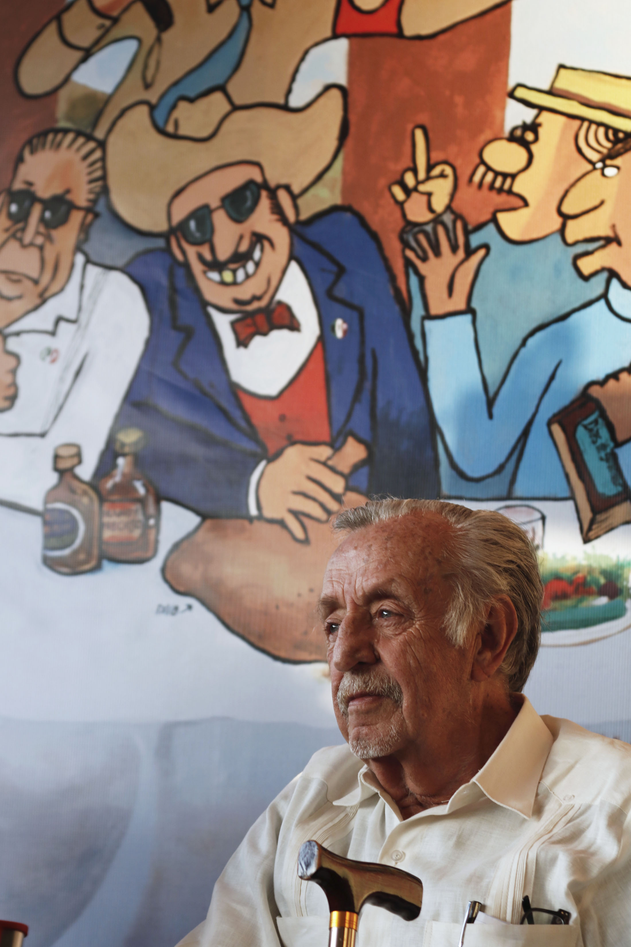 Eduardo del Río a.k.a. Rius receiving a recognition in Mexico City. Tuesday, December 7, 2016. Picture by Milton Martinez / Secretaria de Cultura CDMX.